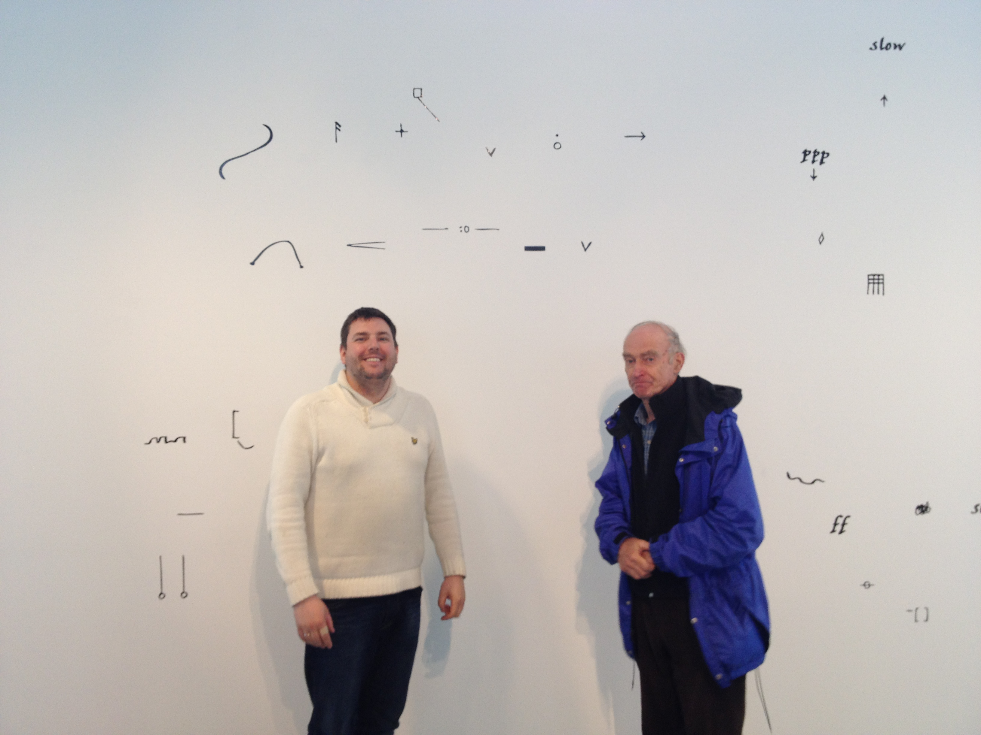 Michael Francis Duch and Christian Wolff in front of Wolff´s piece Edges, Gråmølna, Trondheim, June 2013